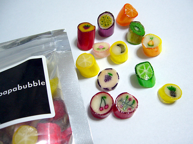 A bland of Spanish Kintarō Candy, Papabubble Tokyo's fruit candy.